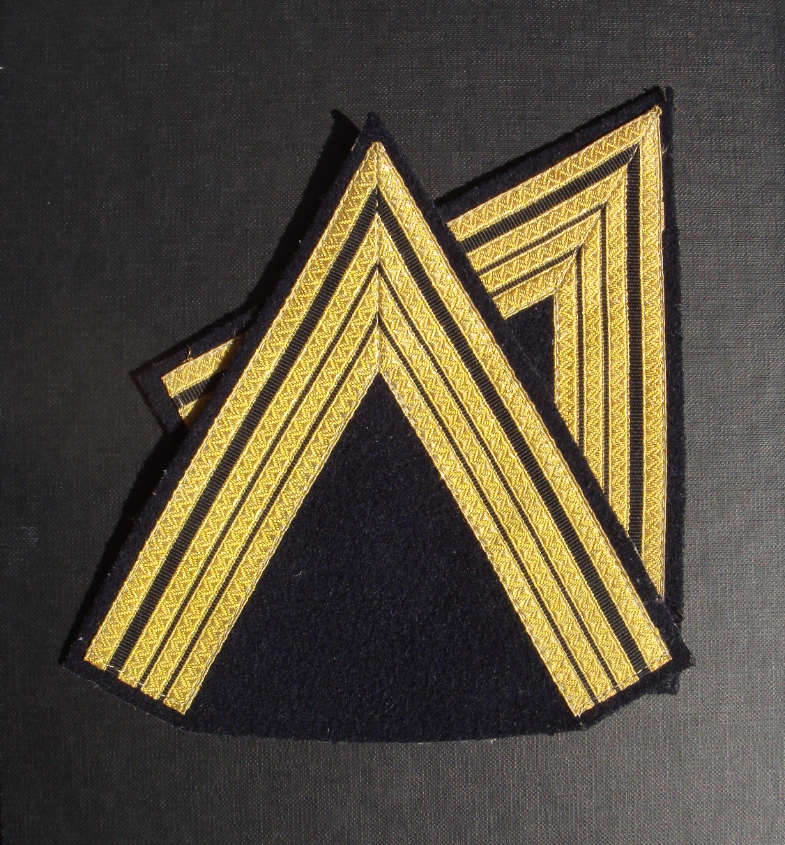 Insignas of Sergent-Major from the Prytanee.